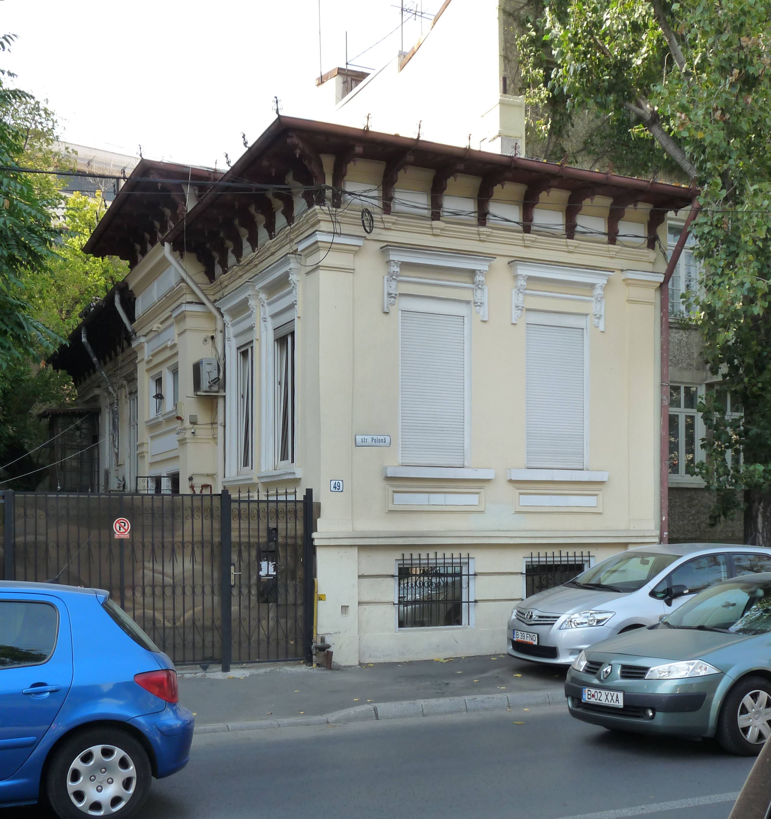 Historic building in Bucharest, Romania, at Polona street 49.